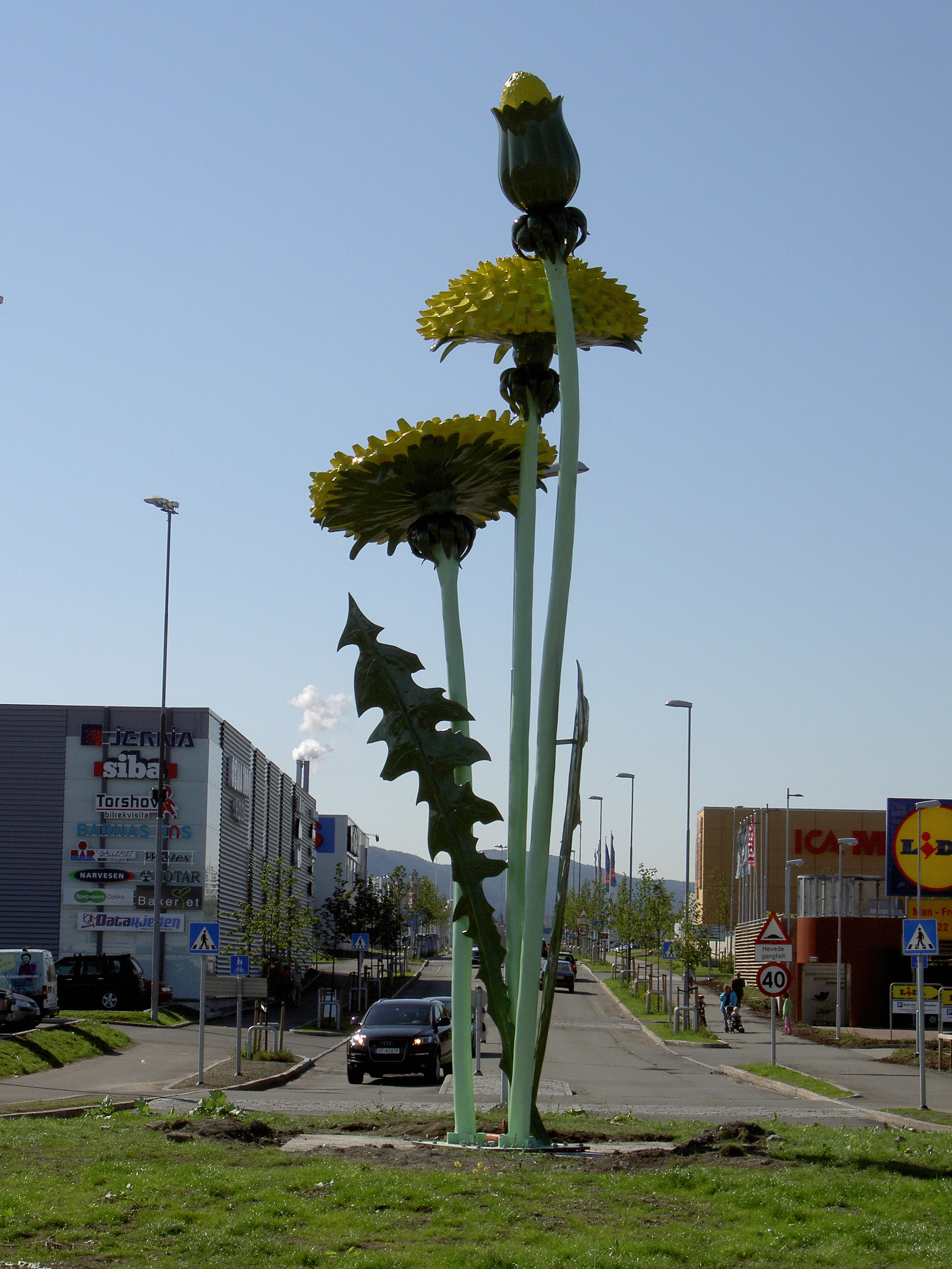 Bronz and steel sculpture made by students in the course Art and Common Space in 2007. The sculpture is 9 meter high and situated at City Syd at Tiller in Trondheim, Norway. The students behind this project was Are Blytt, Mikael Nilsson, Niklas Mulari and project coordinator was Claes Søderquist. The sculpture is a result of a course given by The Faculty of Architecture and Fine Art at Norwegian University of Science and Technology (NTNU).